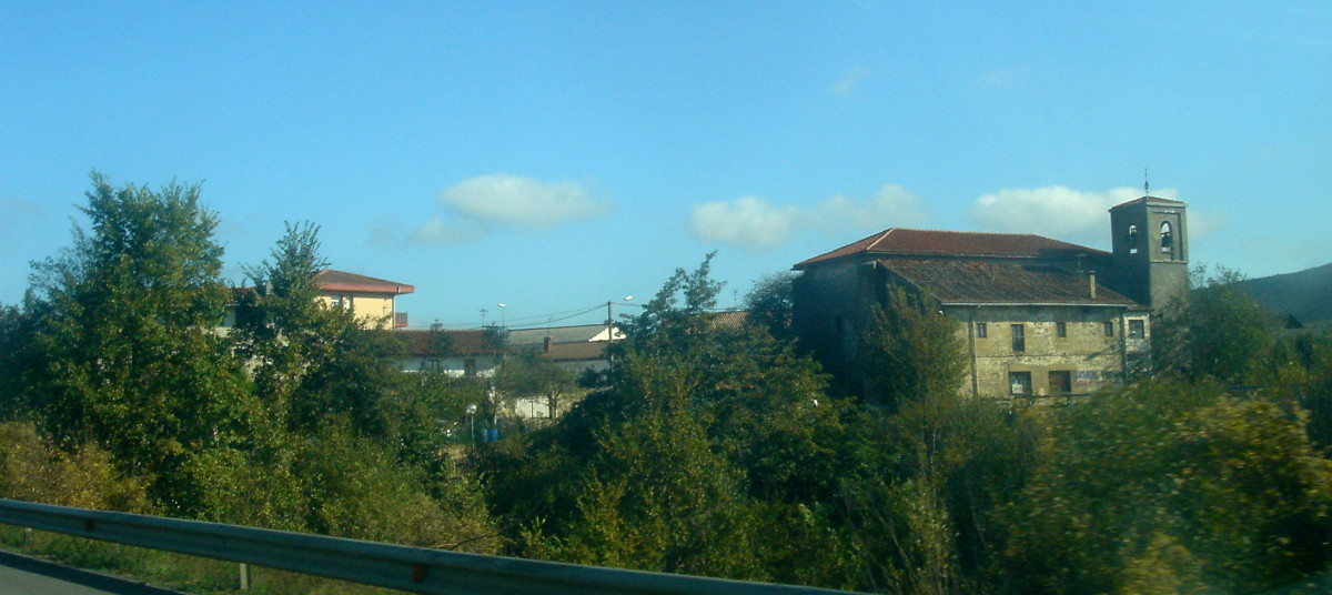 Urbina (Araba, Basque Country, Spain)